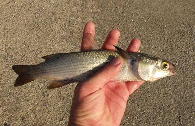 Mugil cephalus from a brackish coastal stream in Grosseto province (Tuscany, central Italy). Photo by Massimiliano Marcelli.